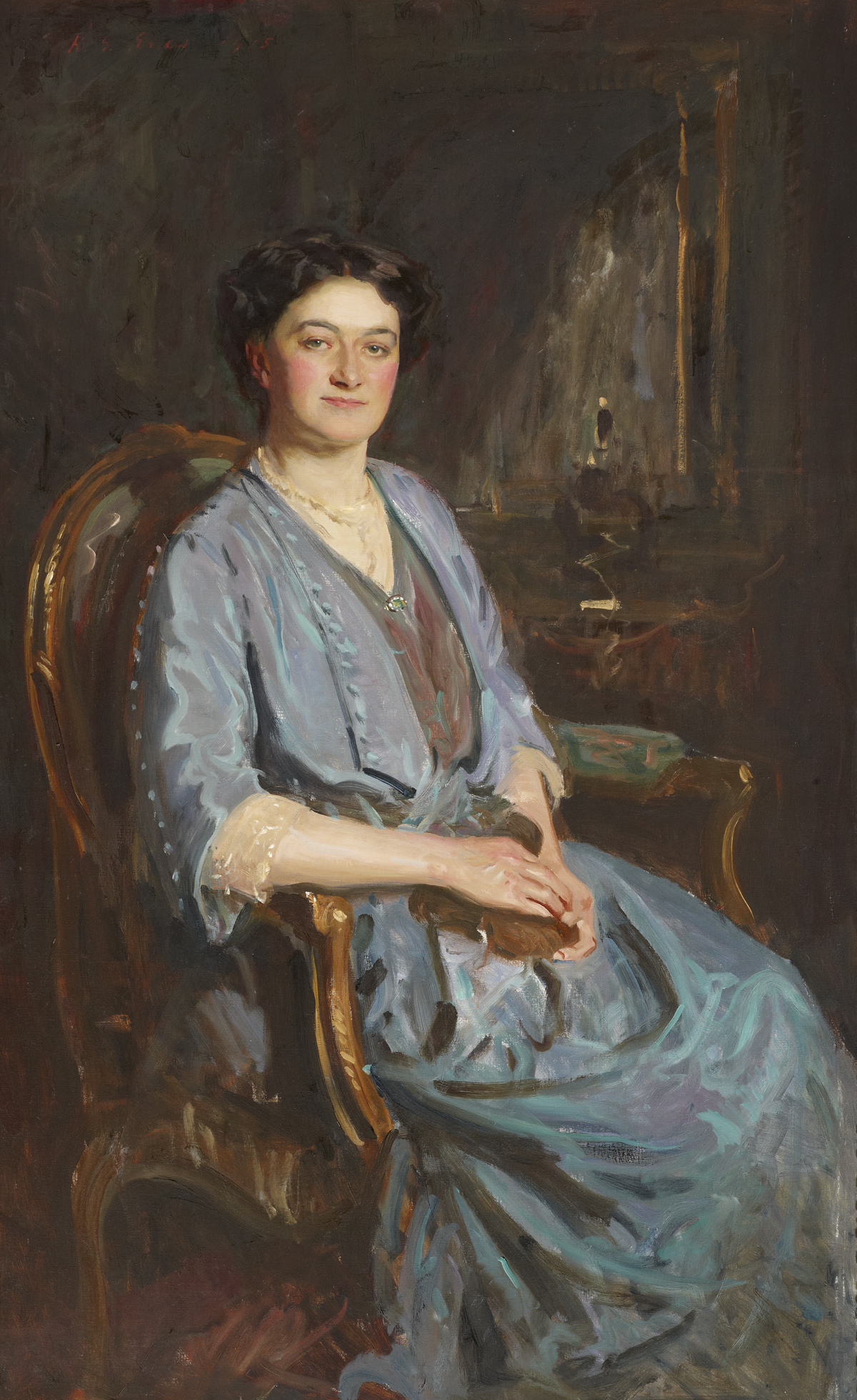 A 1915 portrait of Alice Frances Theodora Wythes, Marchioness of Bristol.